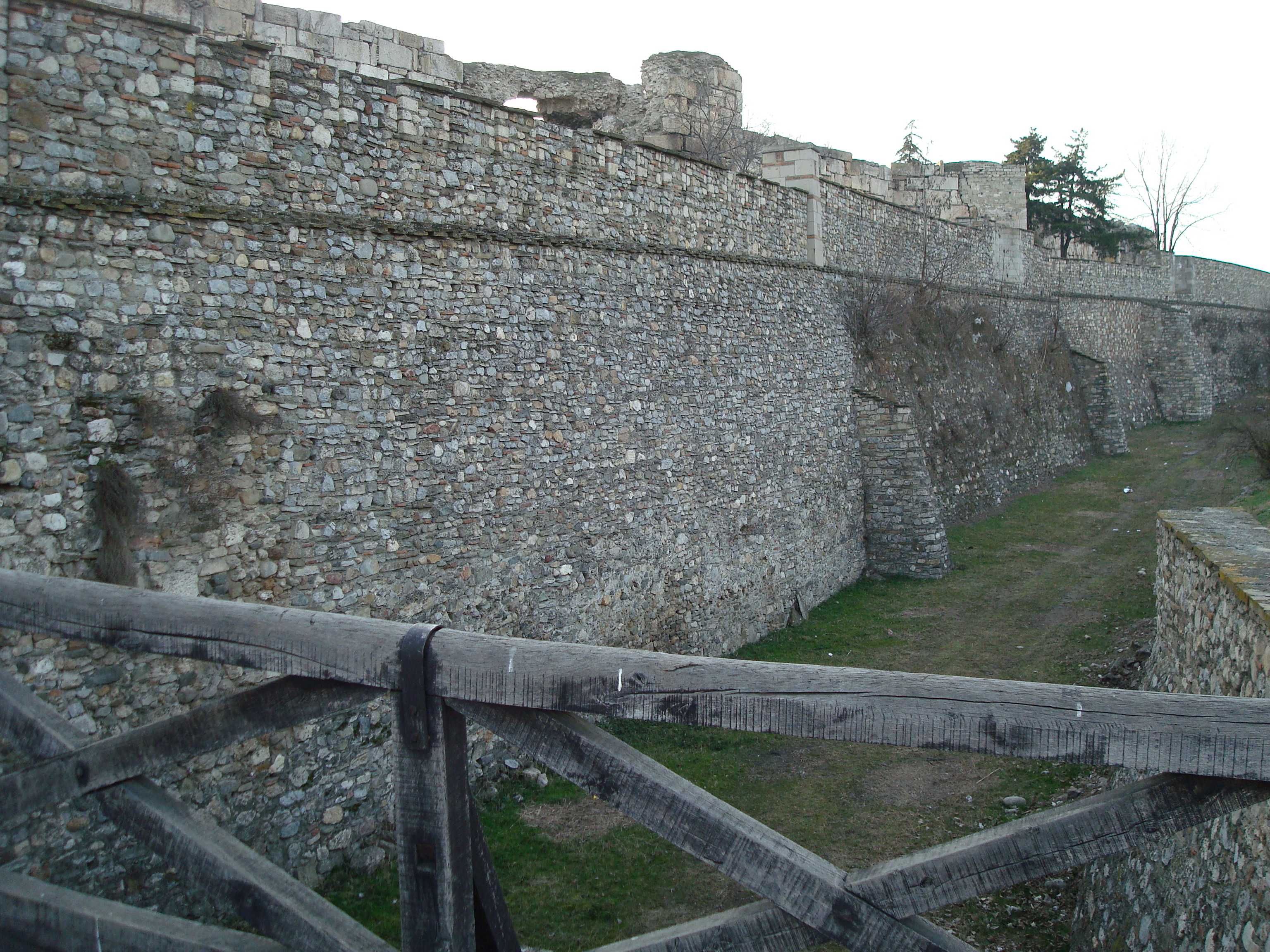 Skopje Fortress, Macedonia This image is uploaded as part of the picture contest Wiki Loves Cultural Heritage in Macedonia 2013. English | македонски | +/−